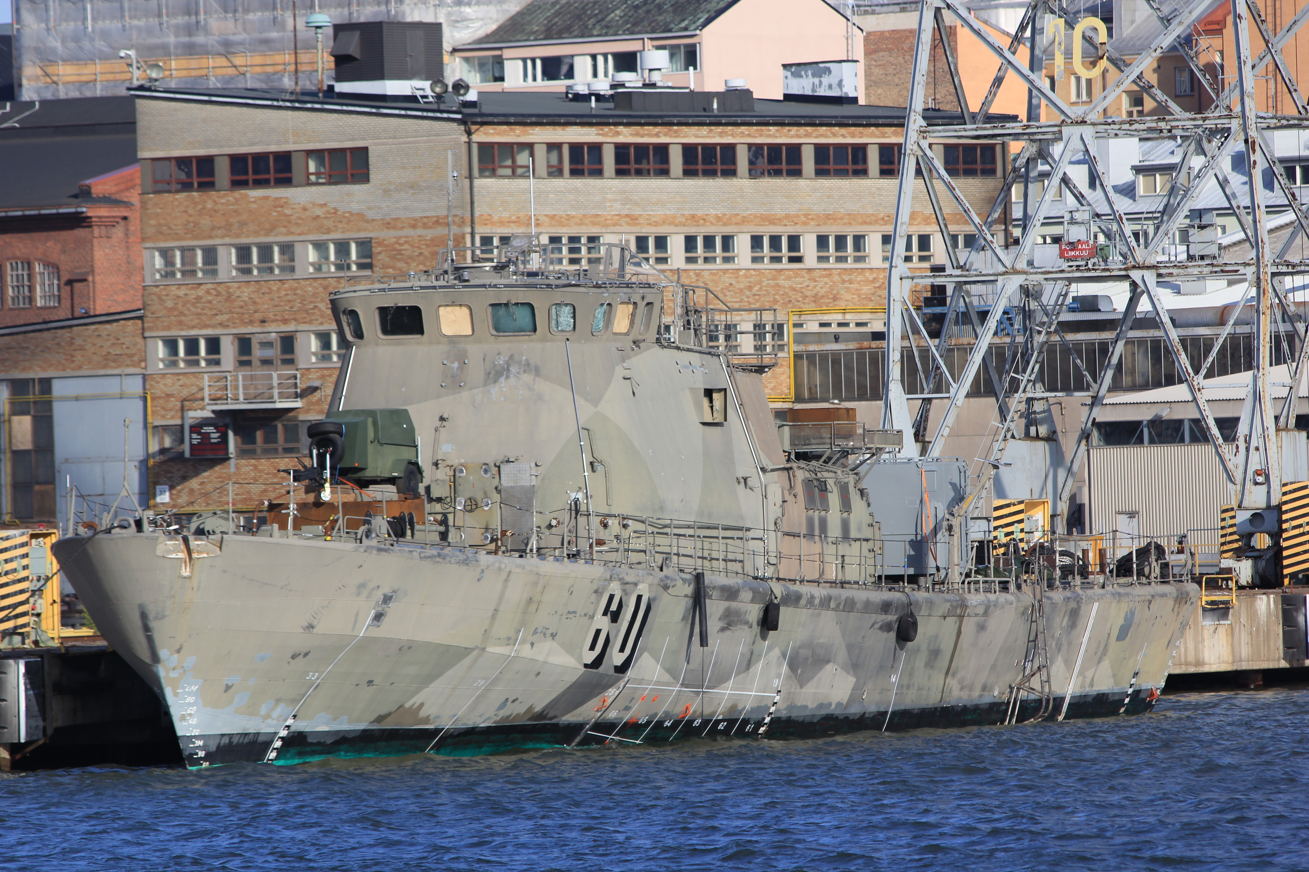 Decommissioned Finnish missile boat Helsinki (60) in Hietalahti ship yard.